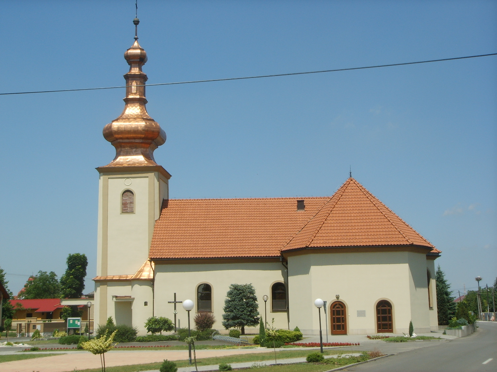 Roman Catholic church in Dlhé Klčovo